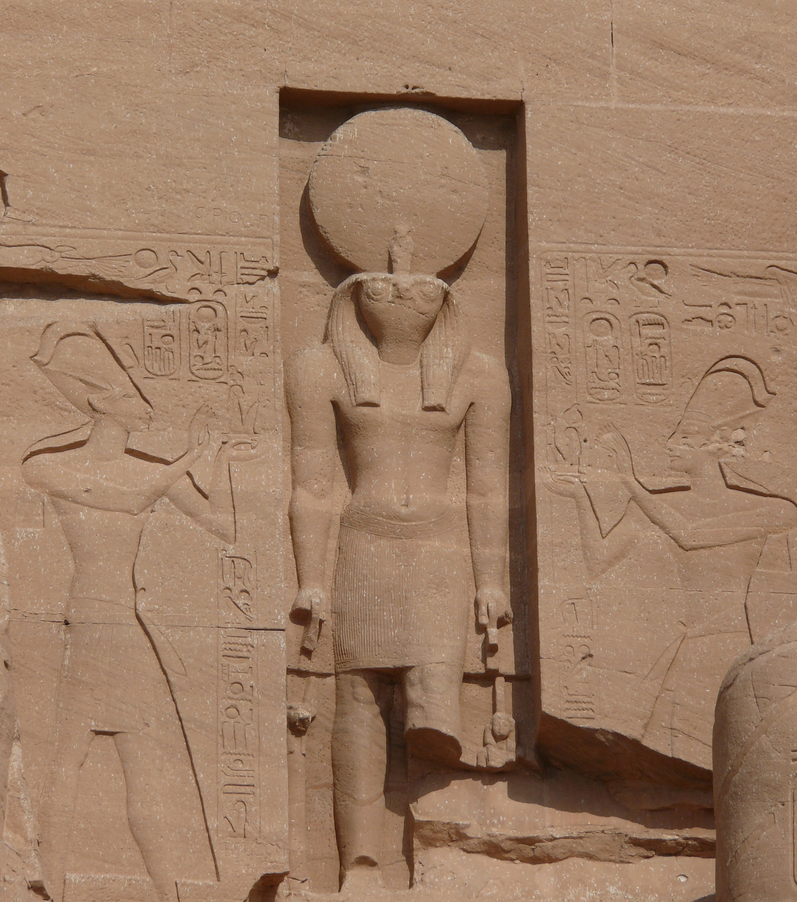 Abu Simbel - Great Temple of Ramesses II, close-up of the reliefs above the entrance: two Ramesses offer ma'at to Ra-Horakhty.